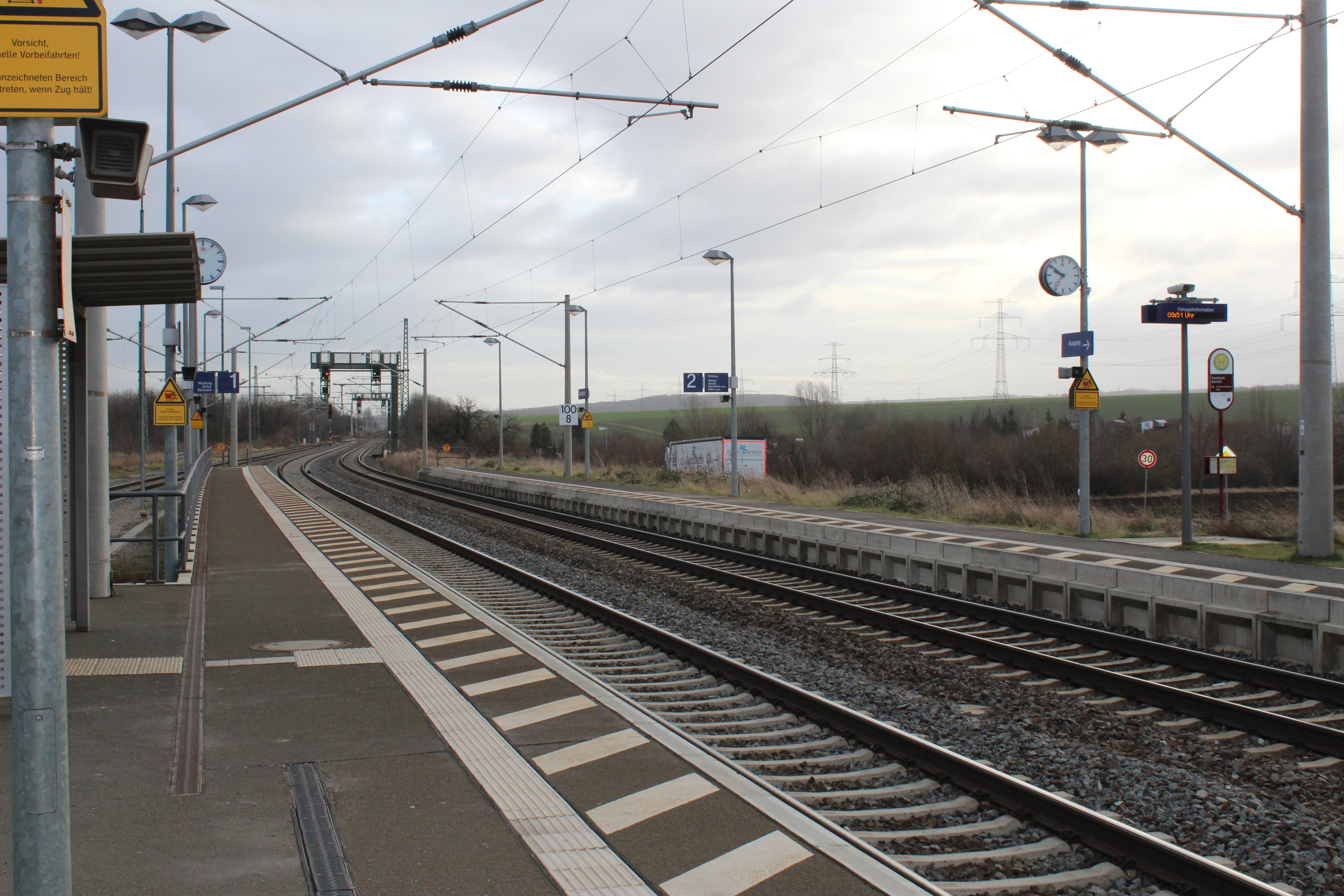 train station Vieselbach